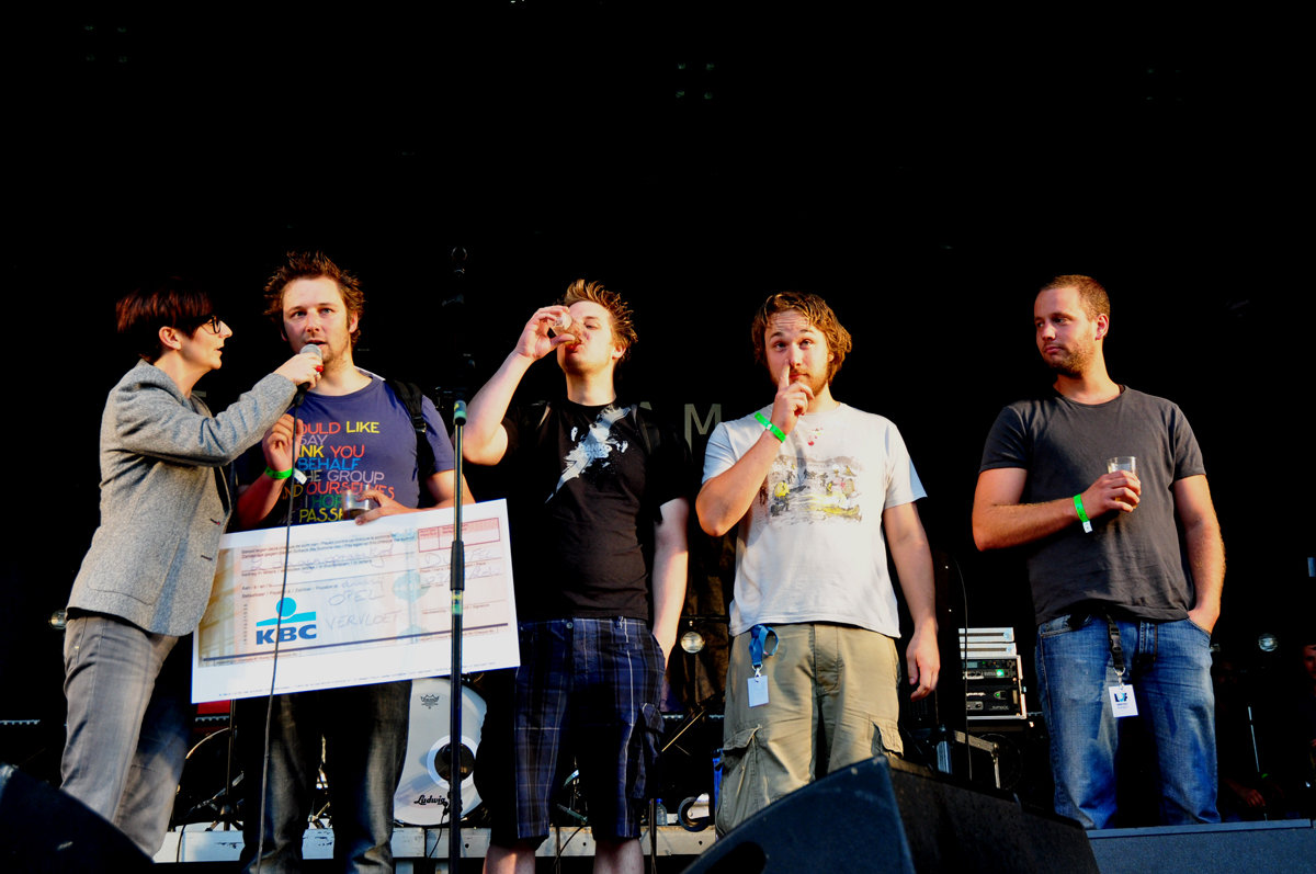 Motion Glue - Rockrally 2010